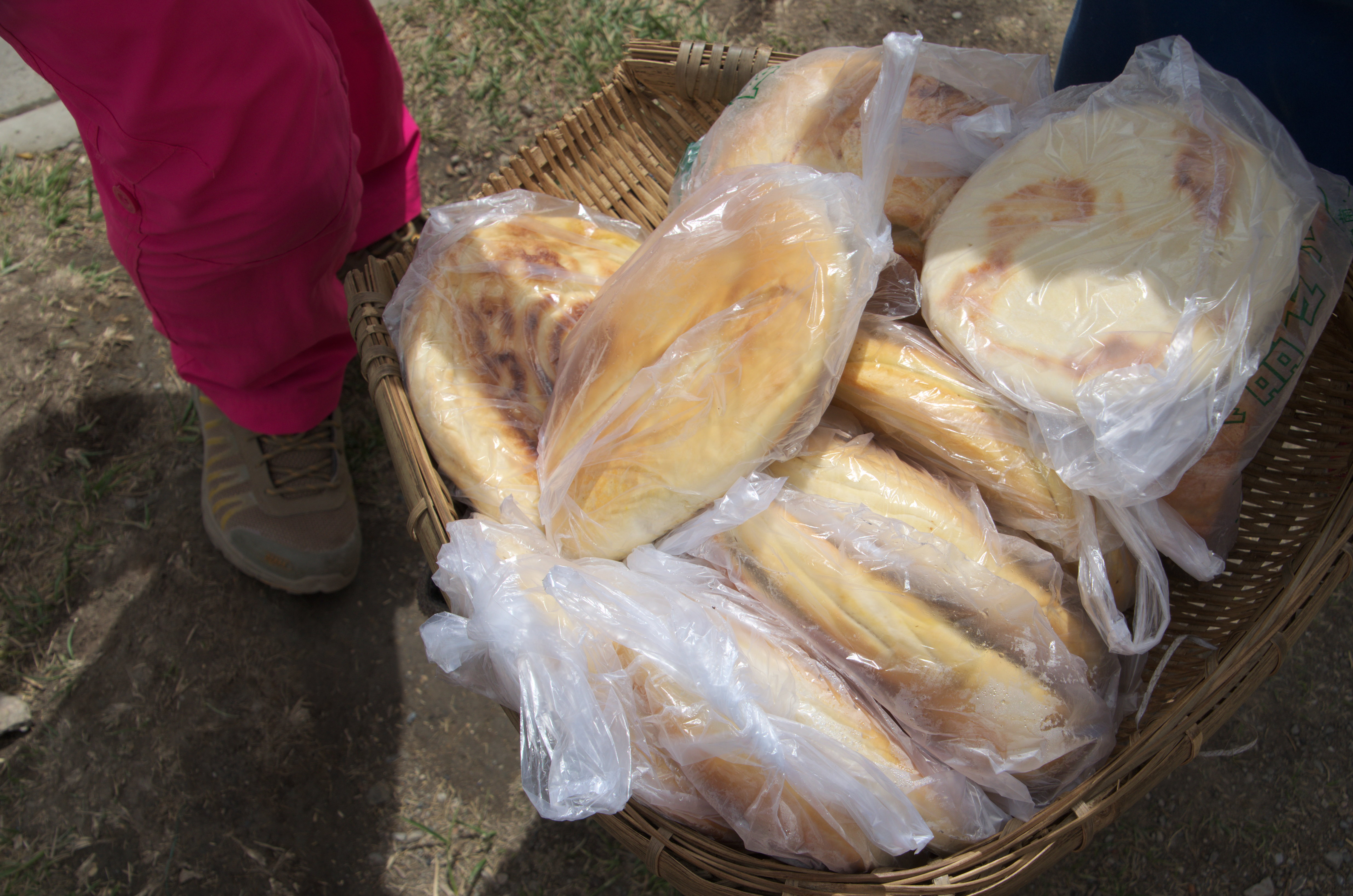 Some Highland barley breads, as sold by an old Qiang lady in Songpan County, Sichuan provicne, People Republic of China.